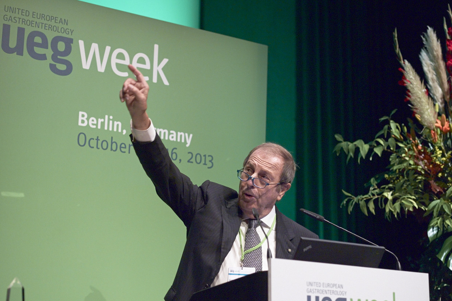 Giovanni Gasbarrini UEG life award